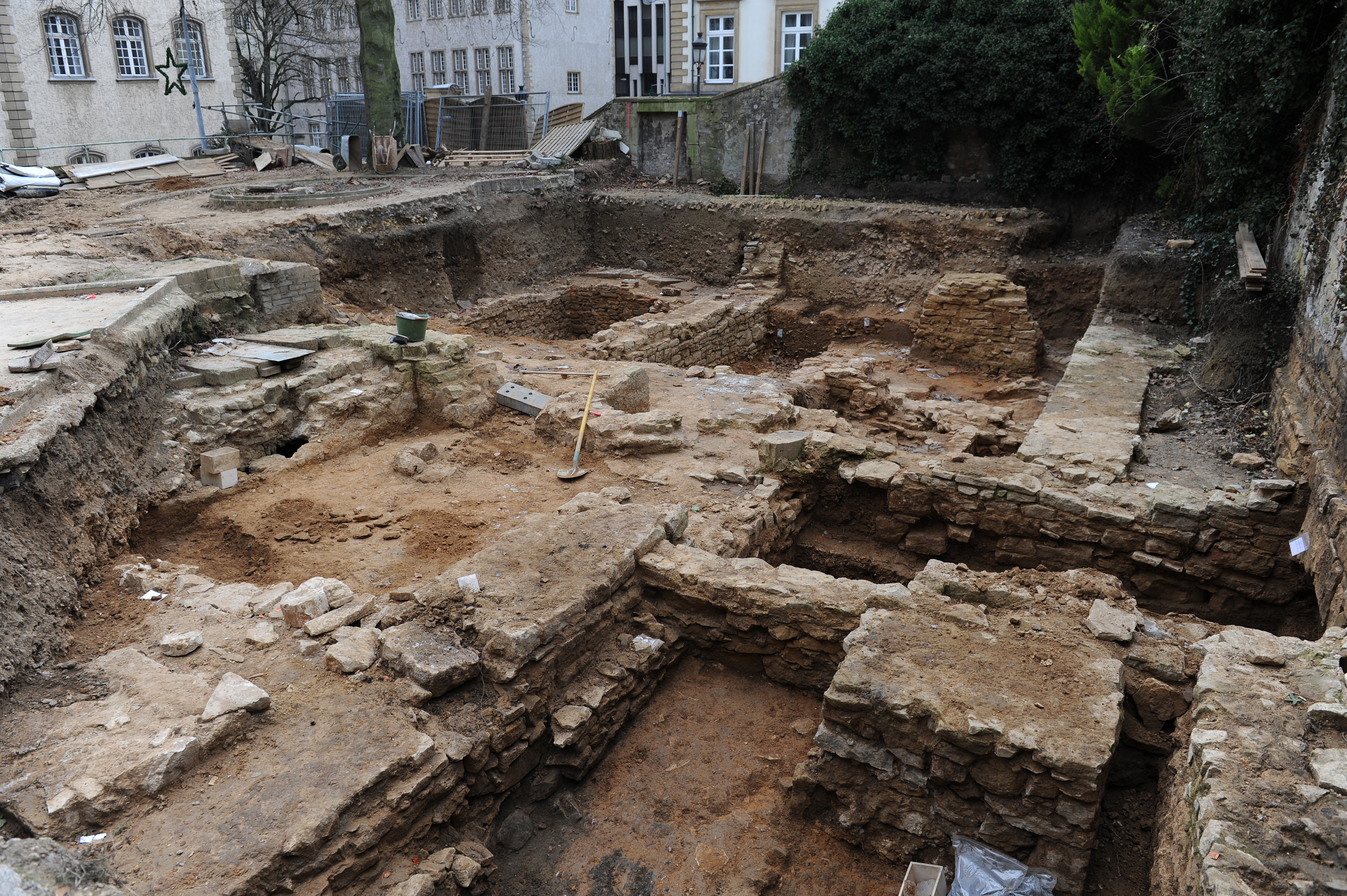 Luxembourg City, square Guillaume II: archaeological excavation in 2009/2010. Right backgground: the City Hall.